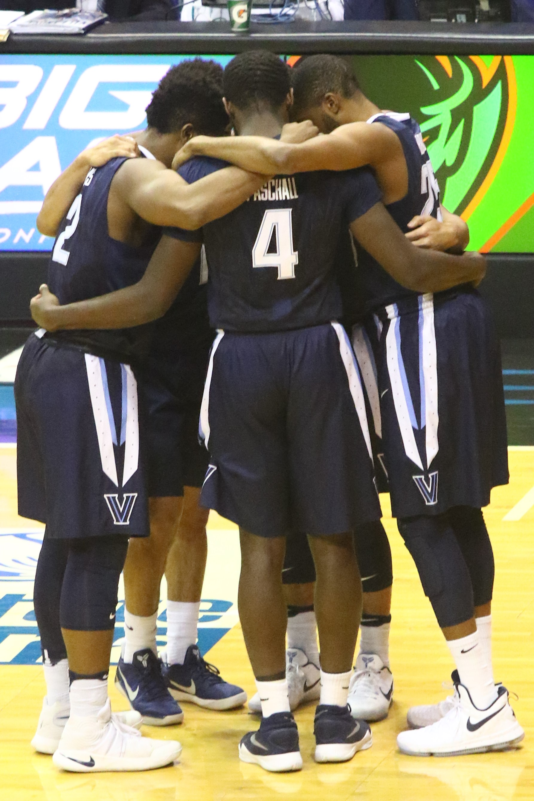 w:2016–17 Villanova Wildcats men's basketball team late season starting five at Allstate Arena